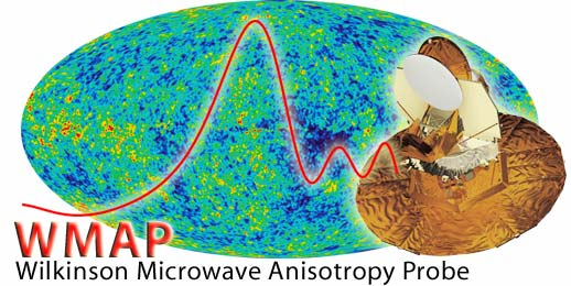 A NASA-created collage of the WMAP spacecraft, with the Cosmic Microwave Background in the background, an illustration of the CMB spectrum and the WMAP spacecraft name.